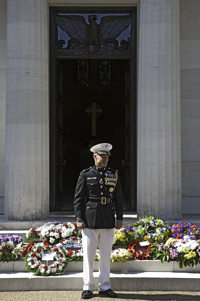 ABMC Brookwood Military Cemetery - Observance 2009 - Chapel Entrance